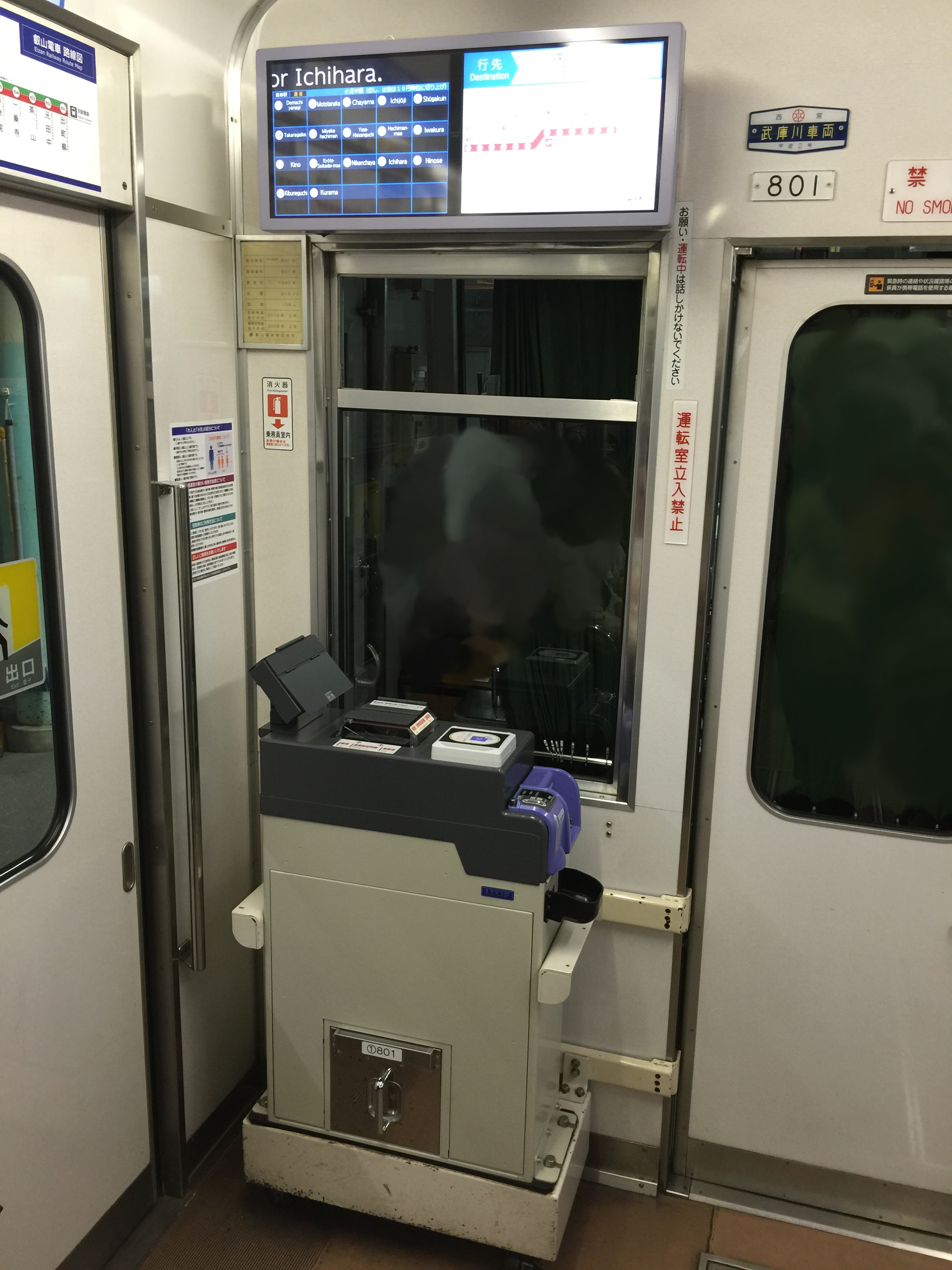 Fare machine and fare showing LCD which are replaced to be used with IC card fare system on Eizan Electric Railway DEO 801 EMU